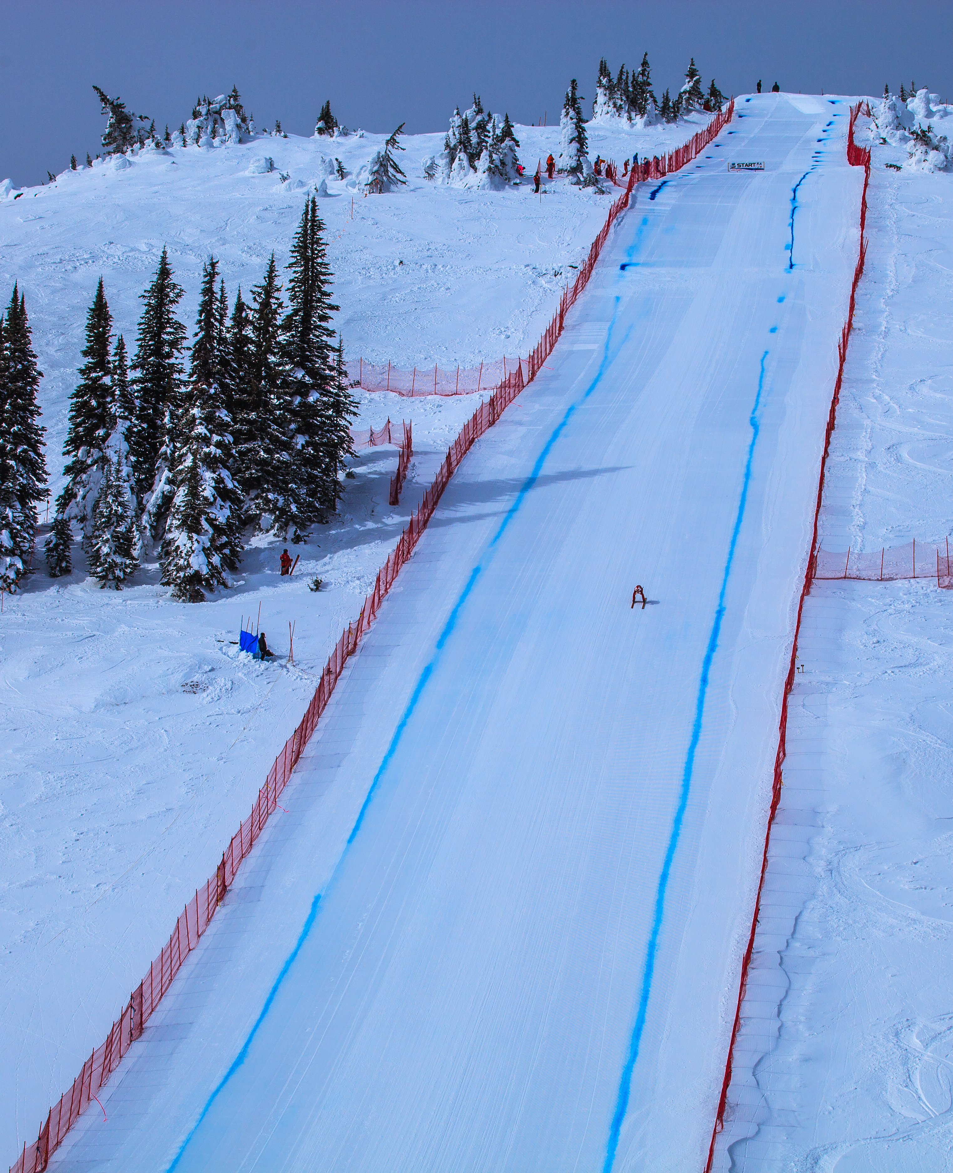 Velocity Challenge...World Cup speed skiing...mid course